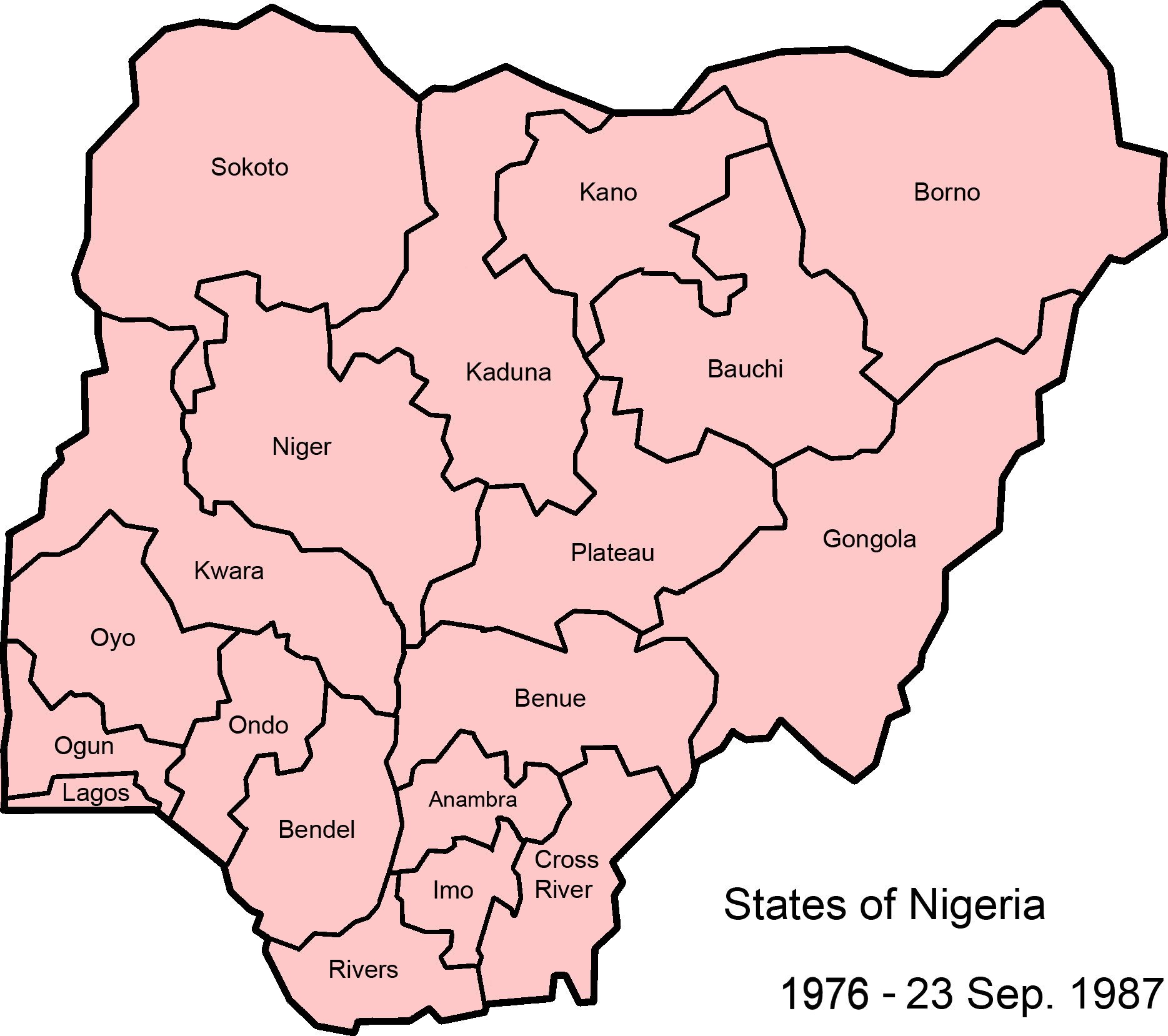 Map of Nigerian states, 1976 - 1987, from data from United States Geological Survey, Africa Data Dissemination Service.